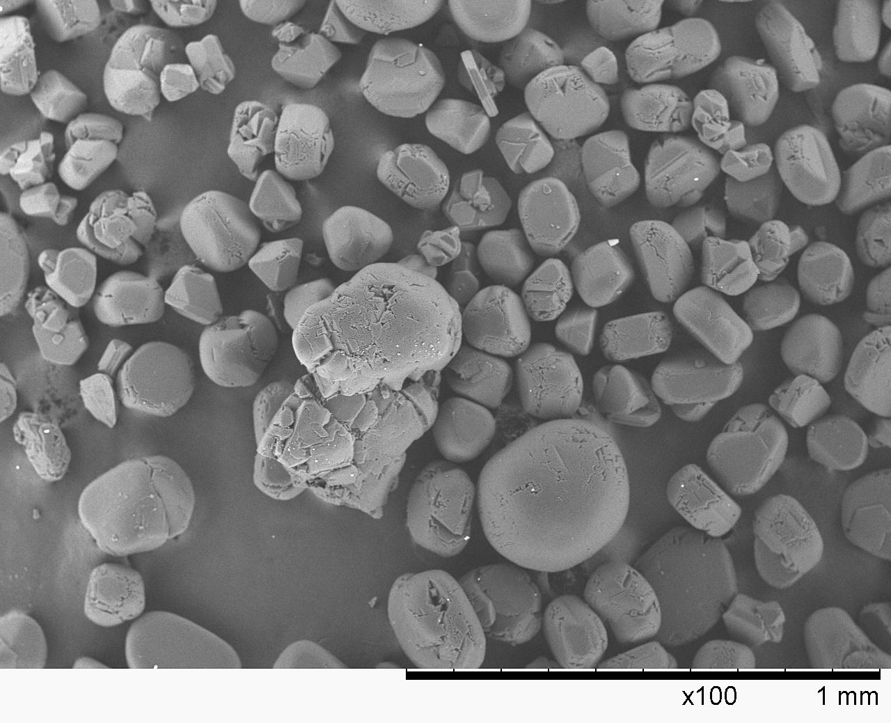 Fullerite C60 Scanning Electron Mycroscope image